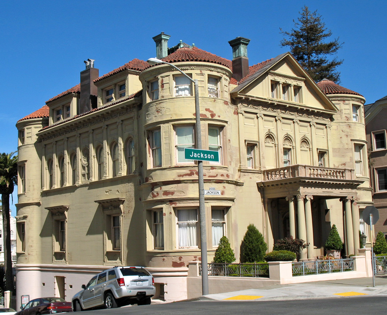 National Register of Historic Places in San Francisco, California. Whittier Mansion, 2090 Jackson St, San Francisco, California, USA. Photographed 2008-03-09 by Mike Hofmann from southwest corner of California and Octavia Sts.